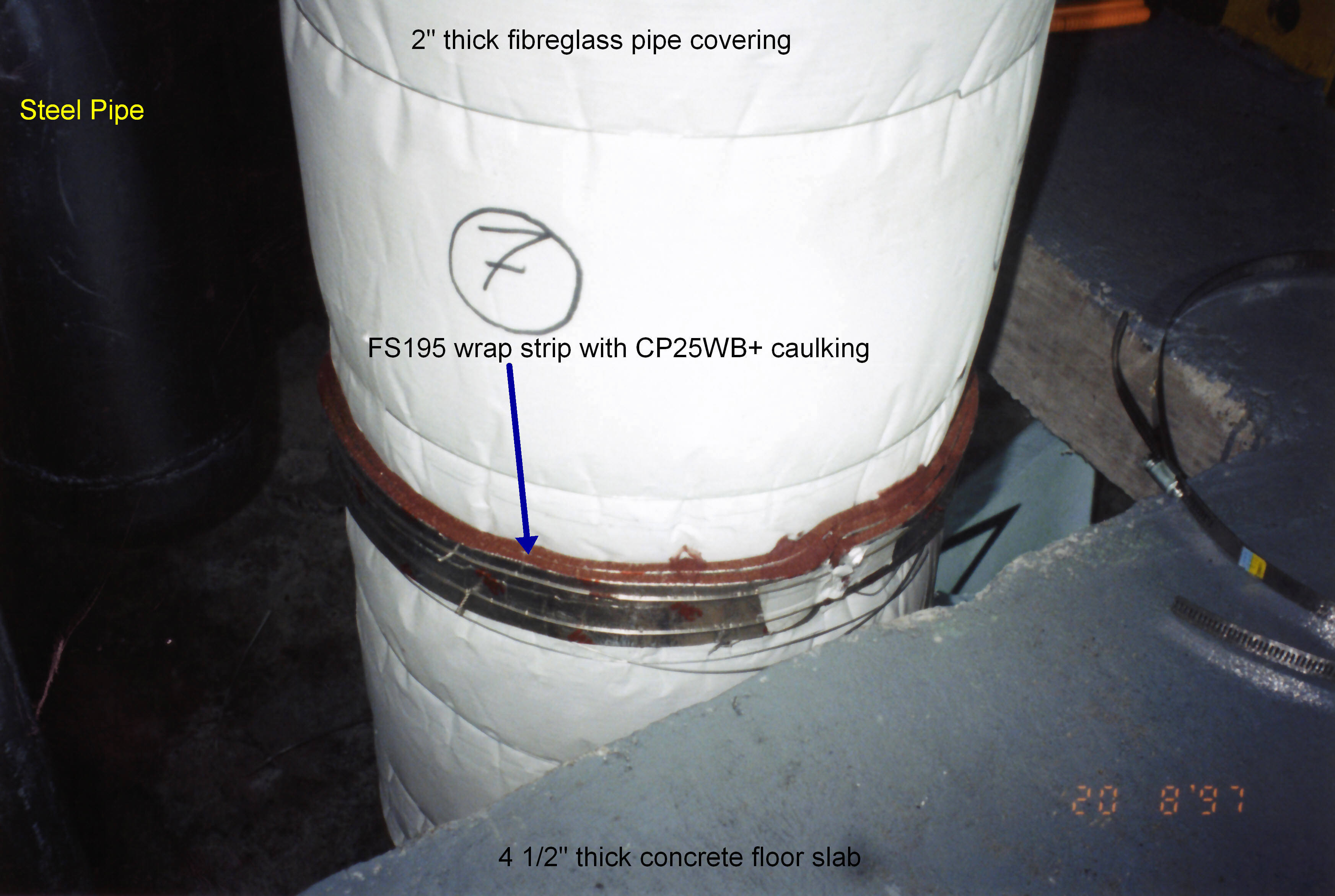 Fire test preparation for UL certification listing C-AJ-8073 Configuration D. The intumescent wrap strip was embedded in firestop mortar to choke off the fibreglass pipe insulation, which typically disappears in a fire.